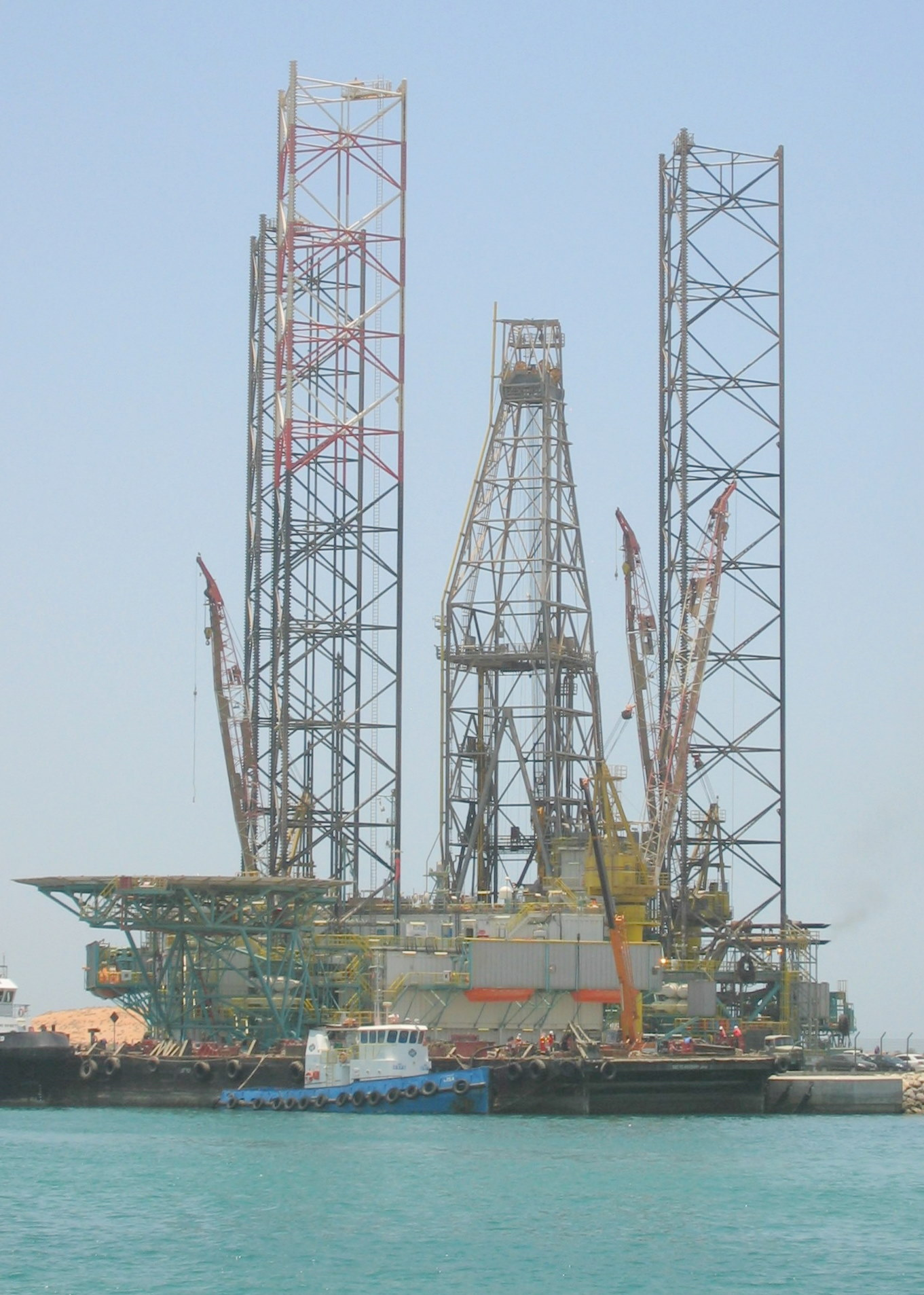 drilling rig